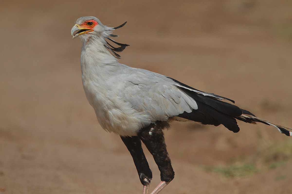 A Secretarybird in Masai Mara, Kenya.